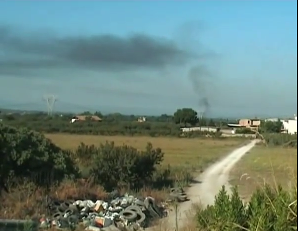 The fire was located 40º55'30.84N 14º6'37.00E, around the area of Giugliano (Italy). In this area, nicknamed the Land of Fires, many wastes are burned without control by the authorities in the middle of the lands.